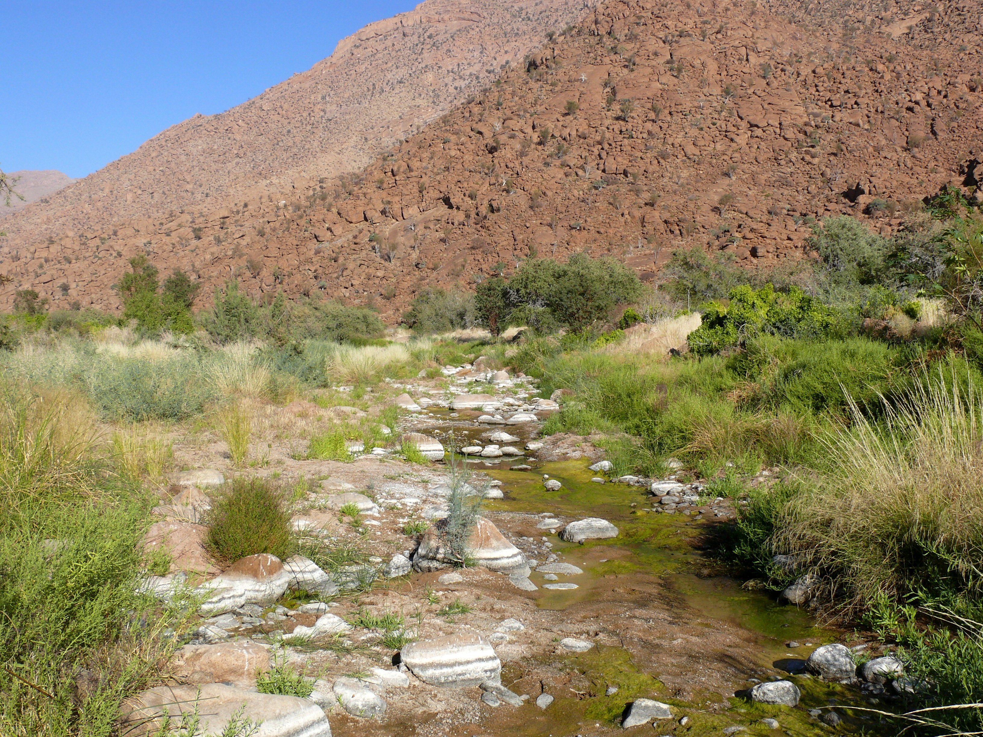 Inside the Brandberg Massif